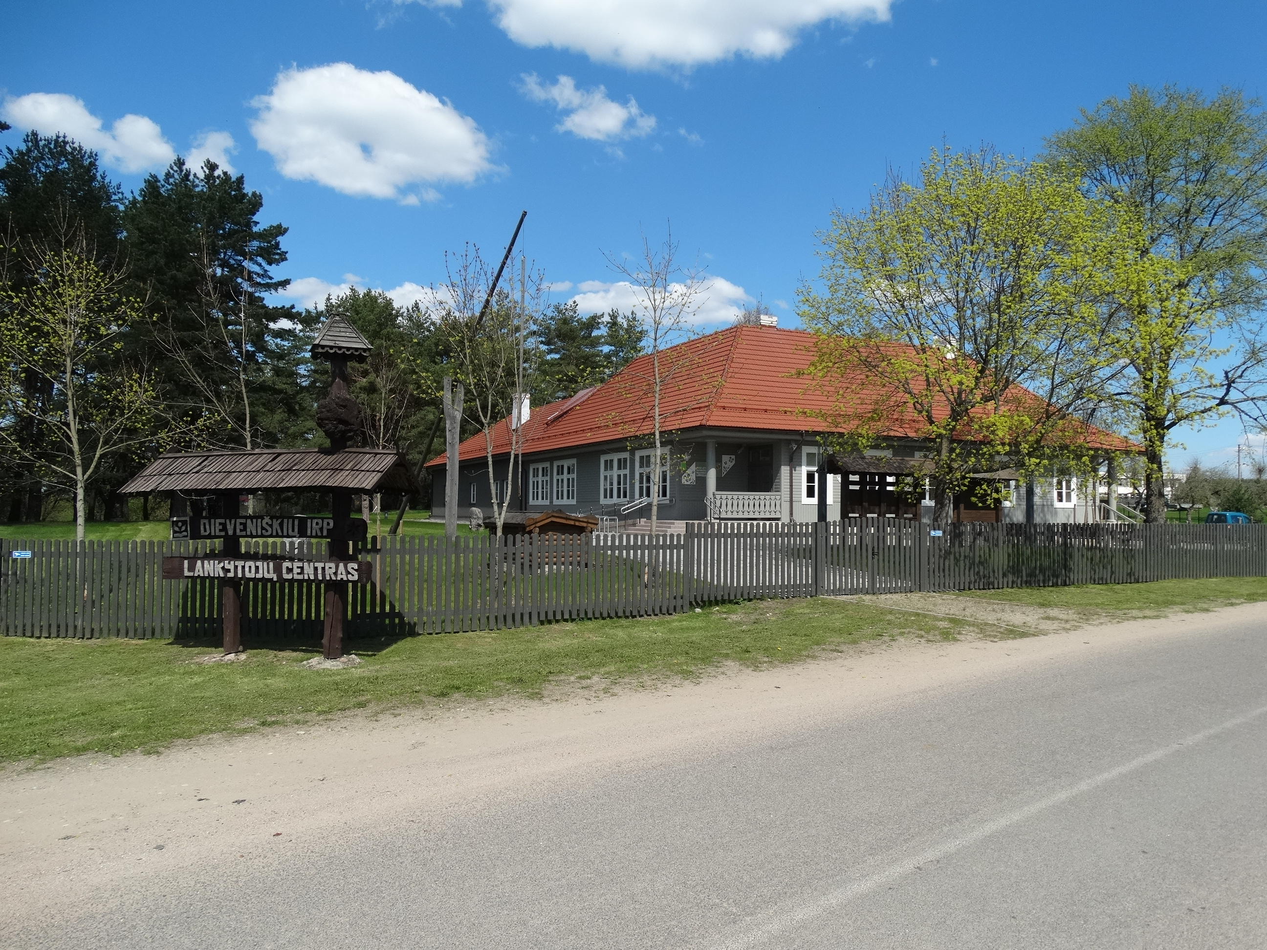 Regional park directorate, Poškonys, Šalčininkai District, Lithuania